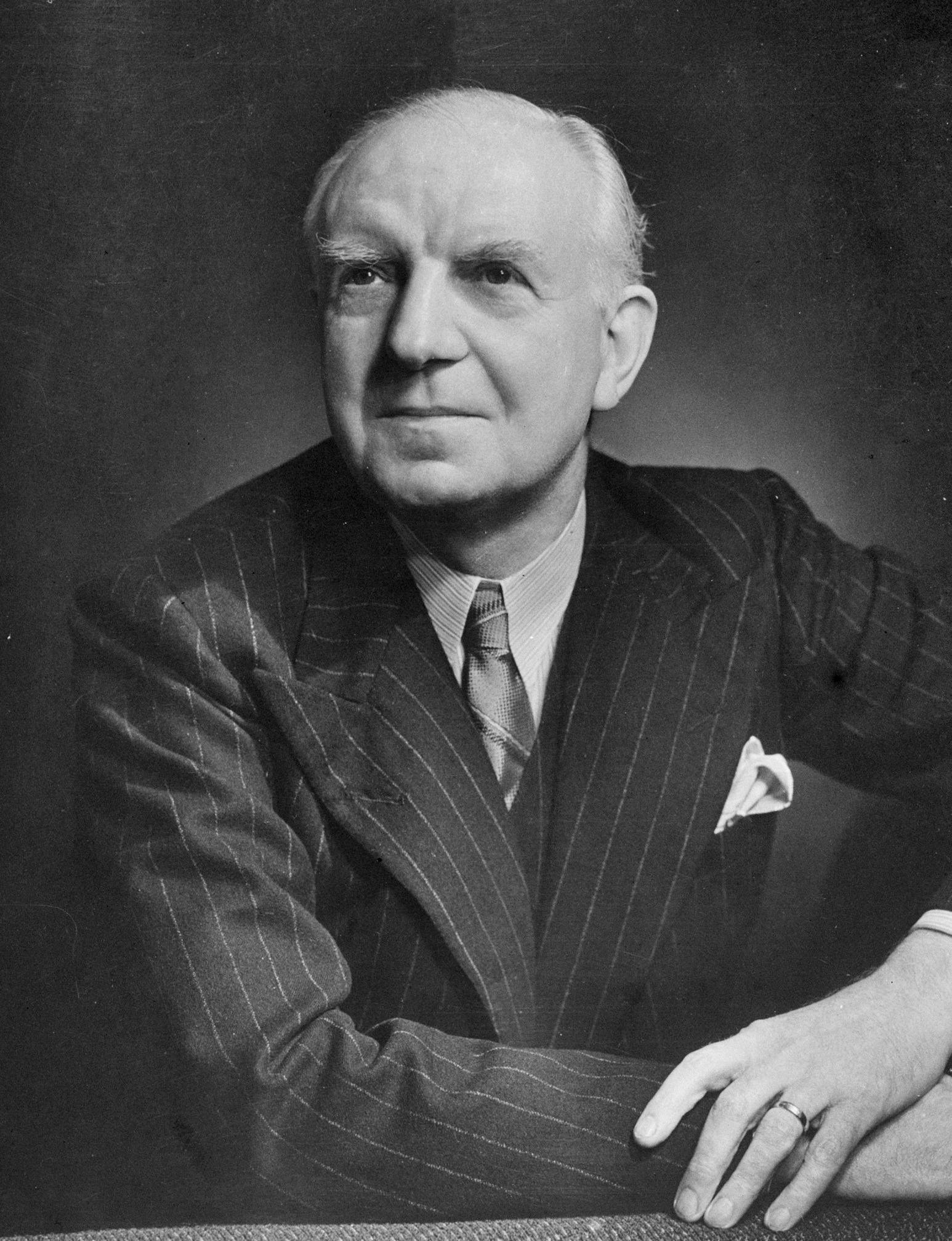 Frederick James Marquis, 1st Earl of Woolton